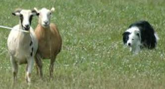 A border collie fetching at a sheep dog trial.